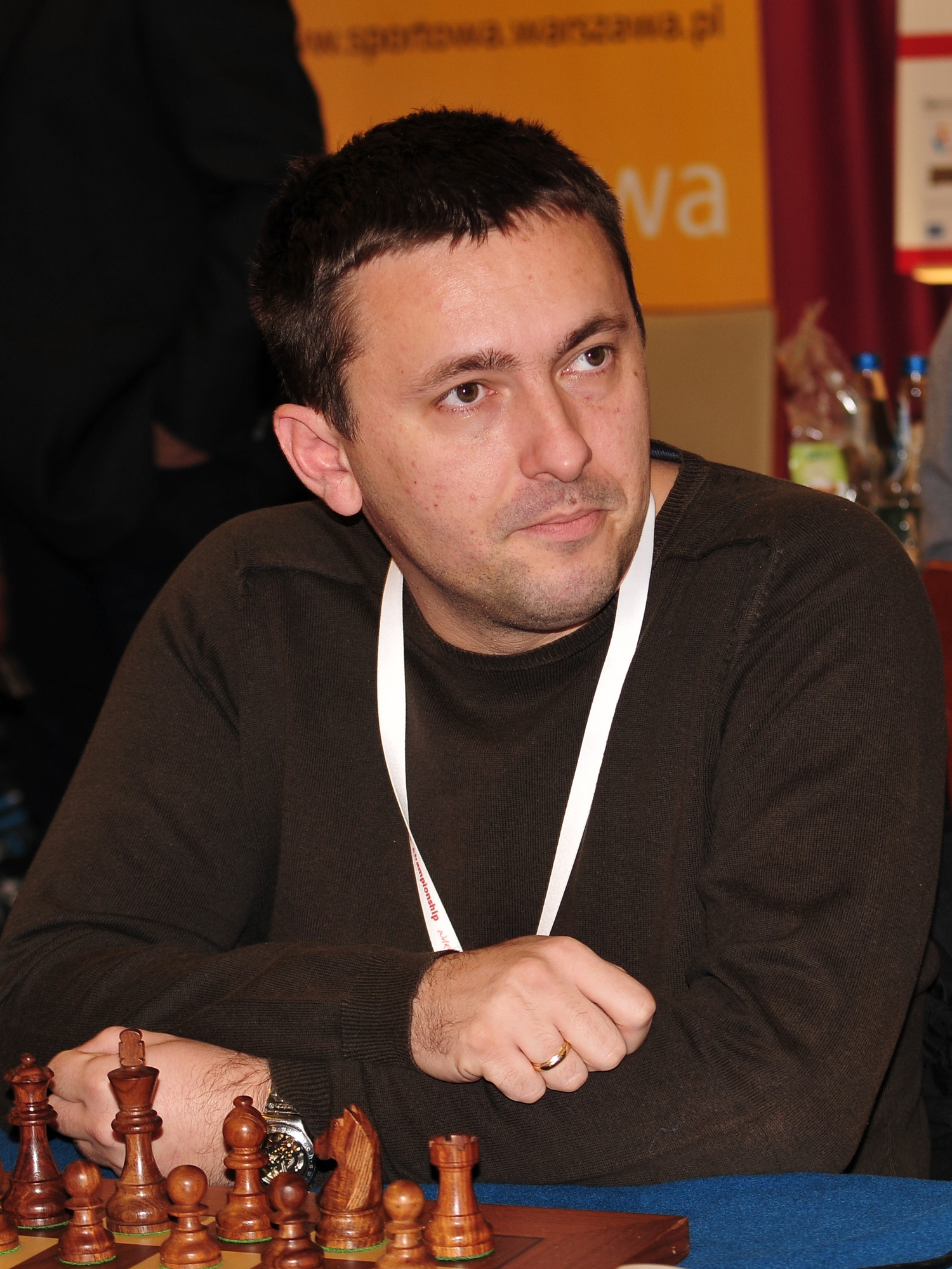 GM Ivan Ivanišević, European Chess Team Championship Warsaw 2013